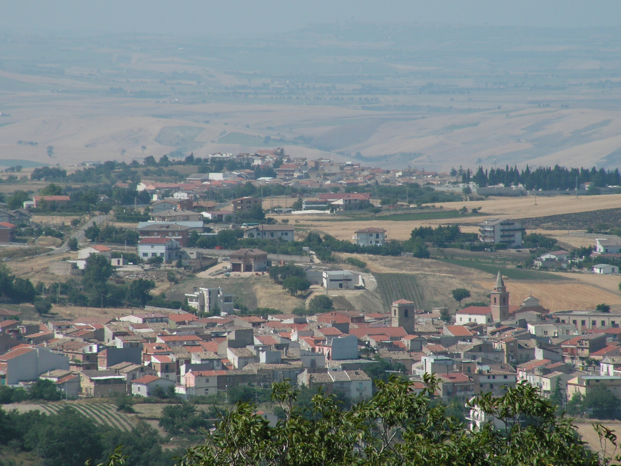 Taken from a higher, adjacent Italian comune, a majority of Casalvecchio di Puglia is seen from above.